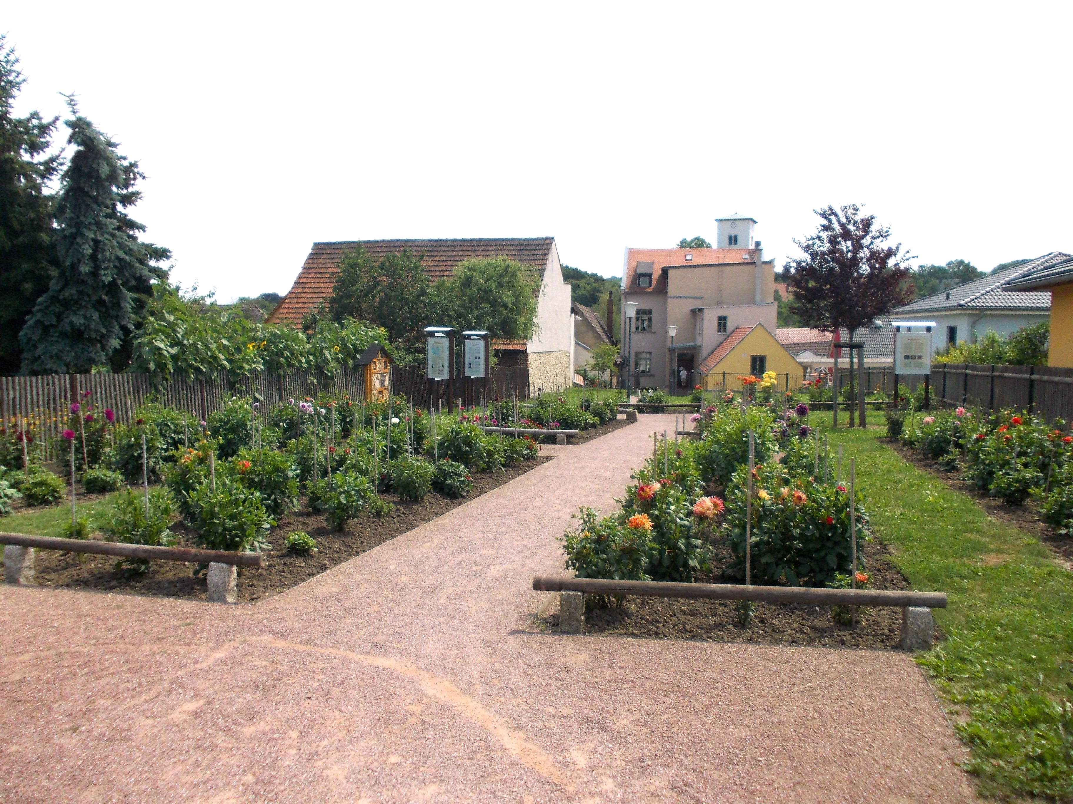 Dahlia garden in Bad Köstritz (Greiz district, Thuringia)